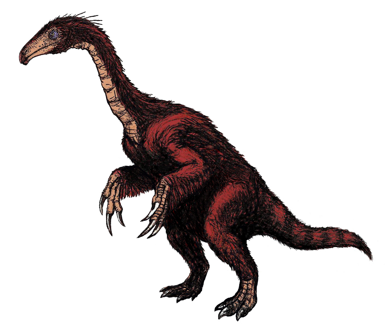 Segnosaurus galbinensis life restoration. Based on figures in the original description (Perle, 1979).